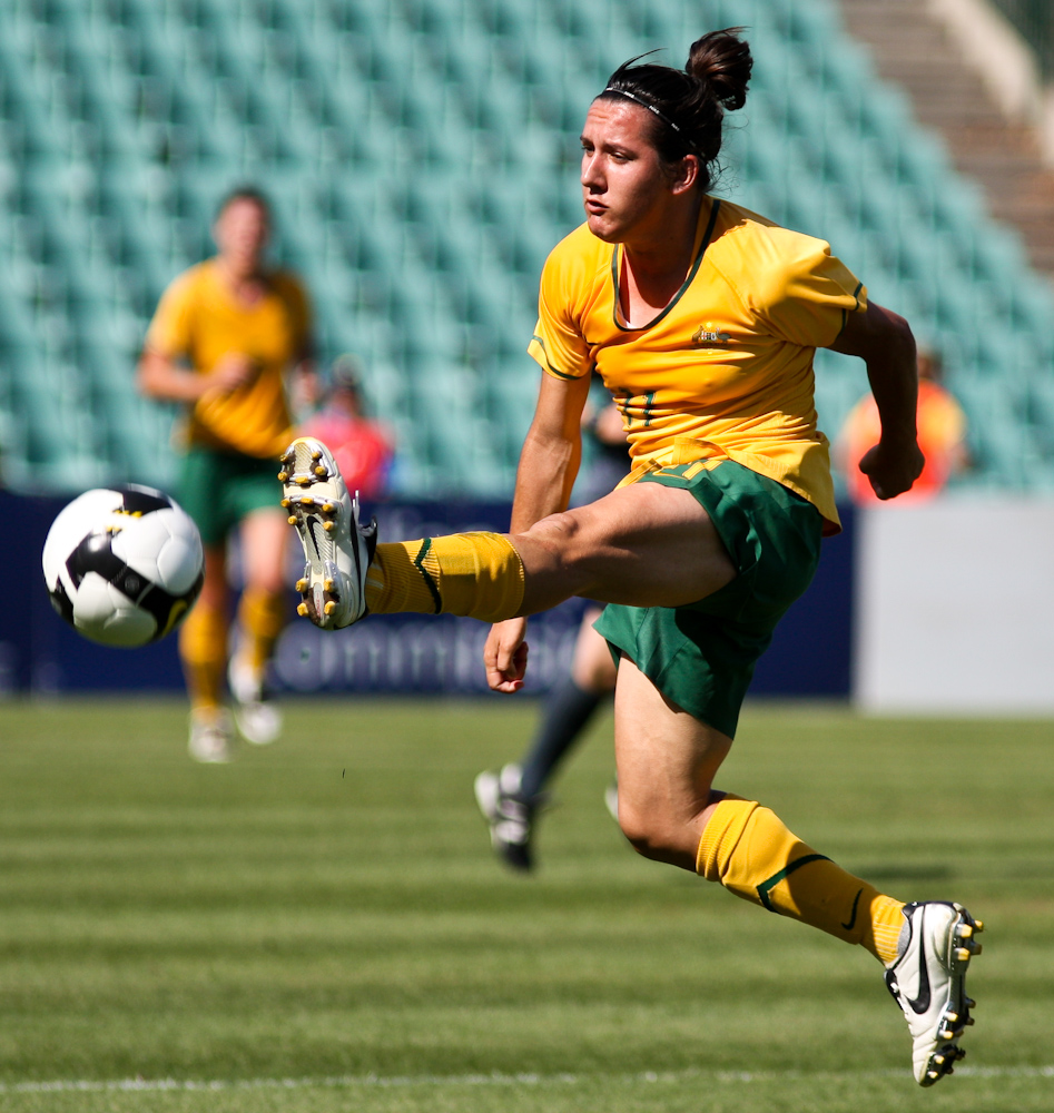 Lisa De Vanna playing for the Australian Women's Football Team against Italy in a friendly international.